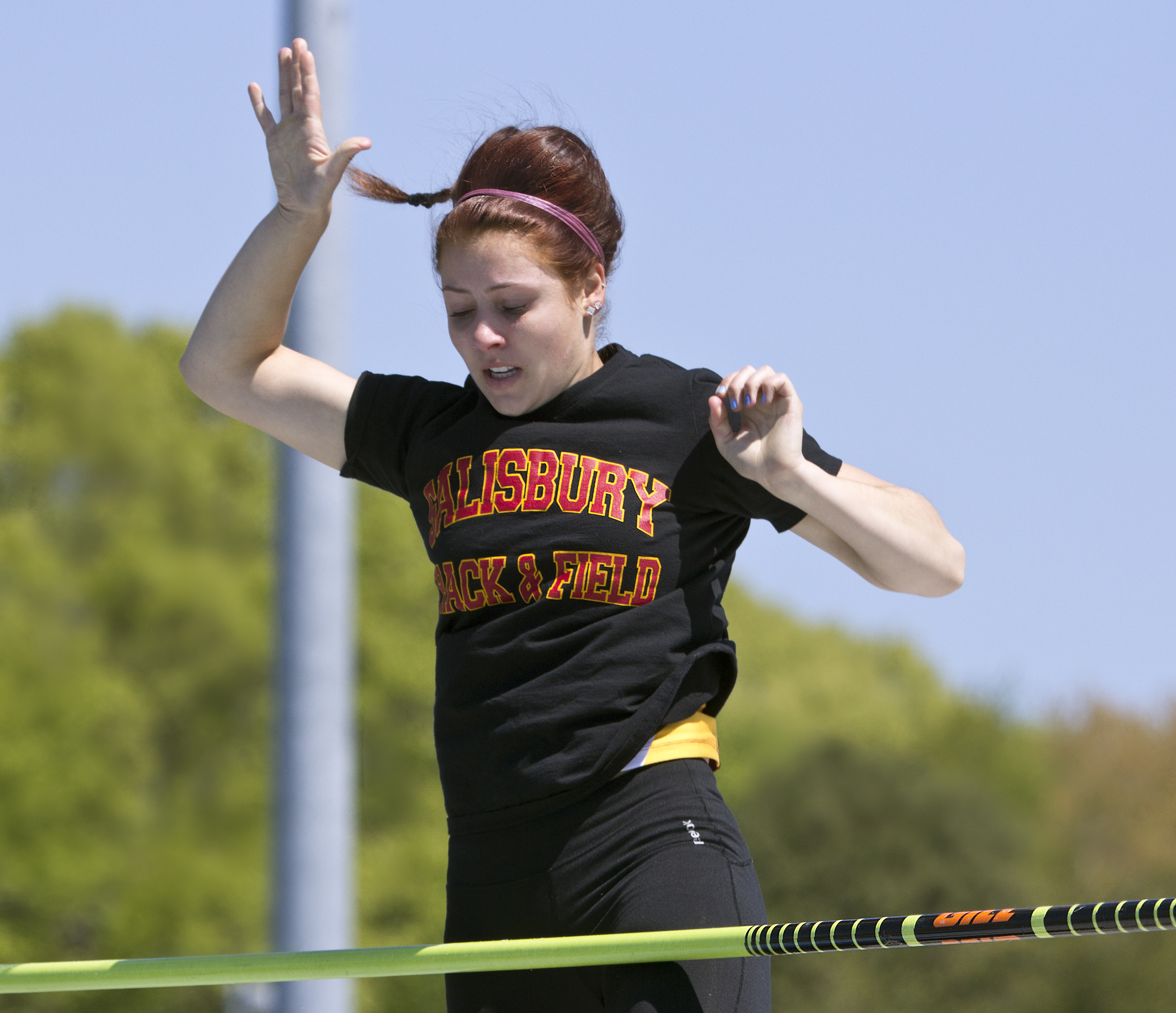 CNU Captains Classic Track and Field combined events Newport News Va.